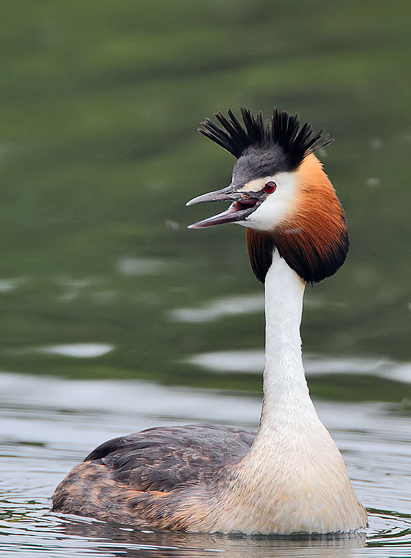 This bird was calling for its partner which had drifted off out of view. Image taken at Birnie Loch, Fife, Scotland.